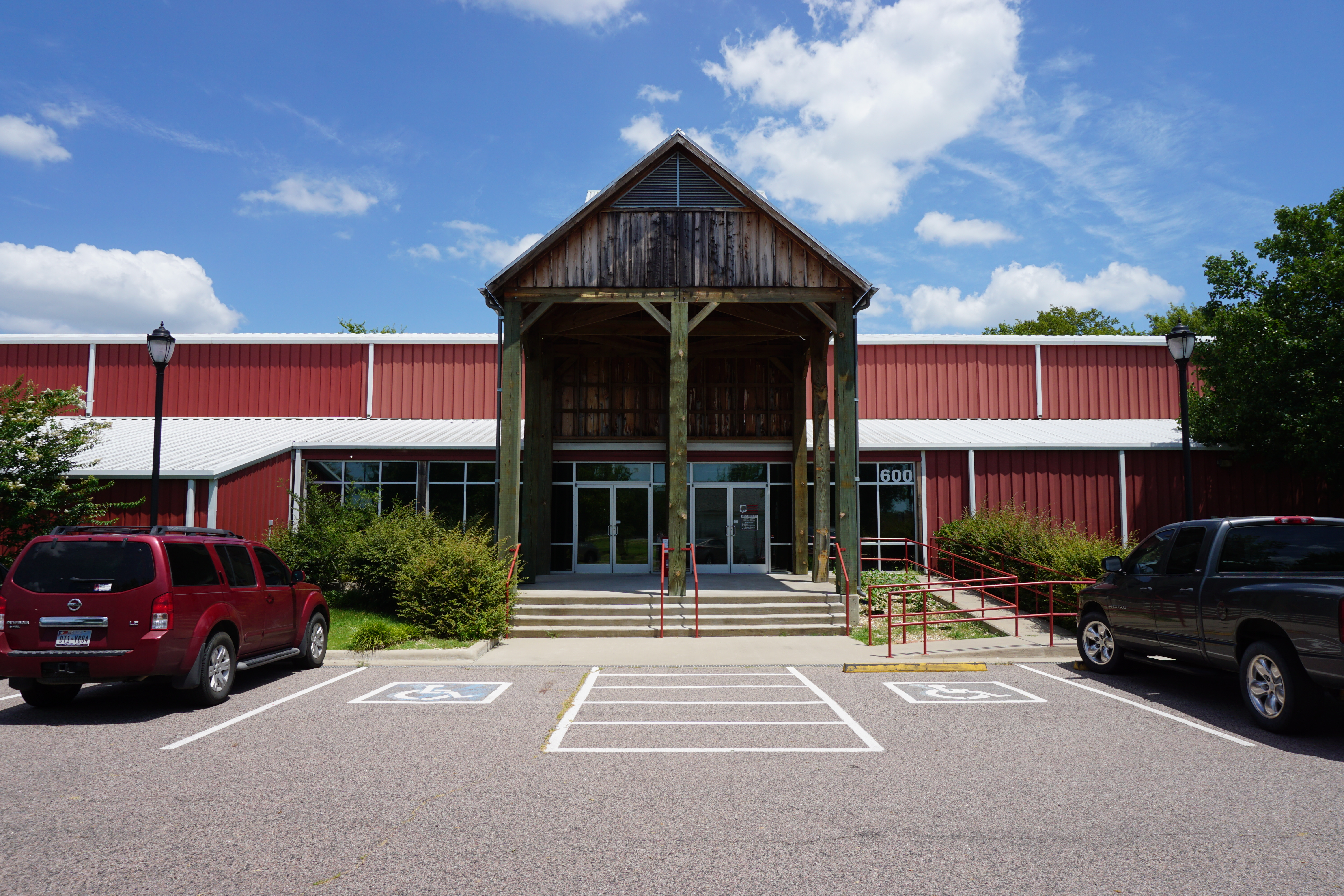 The exterior of the Audie Murphy American Cotton Museum in Greenville, Texas (United States).